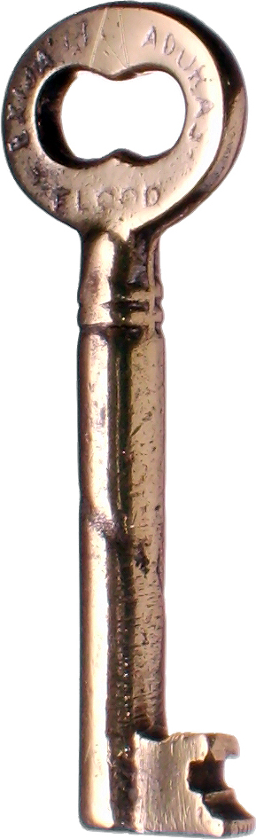 A skeleton key.